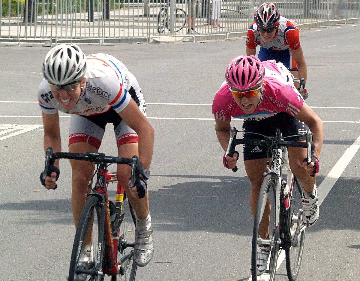 Nicole Cooke (Raleigh Lifeforce Creation) and Oenone Wood (T-Mobile) sprint for the finish at the 2007 Geelong World Cup. Behind them is Nikki Egyed (Australian National Team) who finished third.